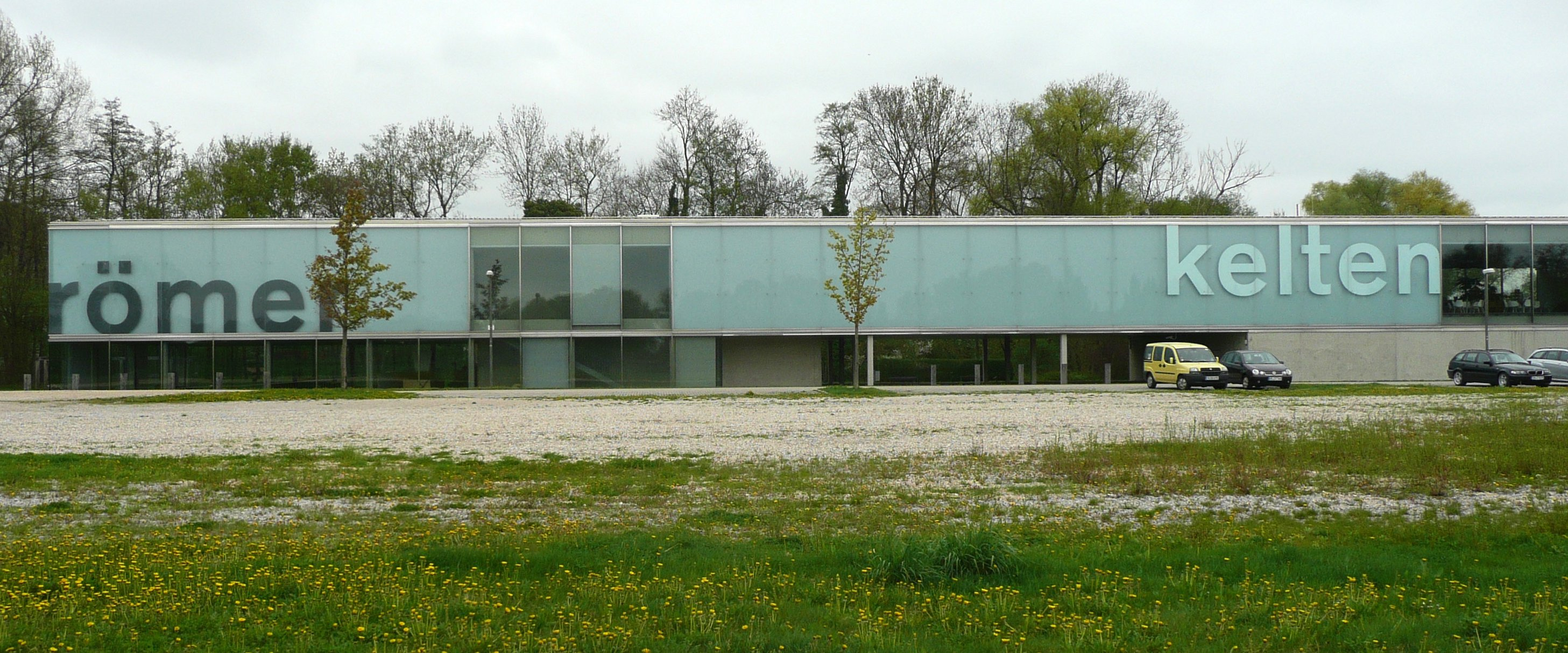 The kelten römer museum manching in Manching, seen from S.